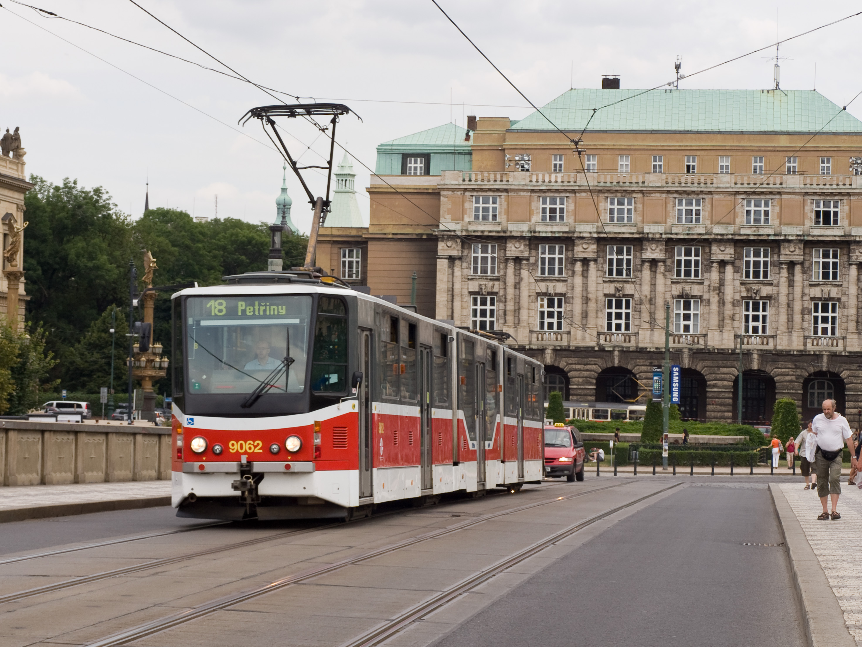 Tatra KT8D5R.N2P, Mánesův most, Prague